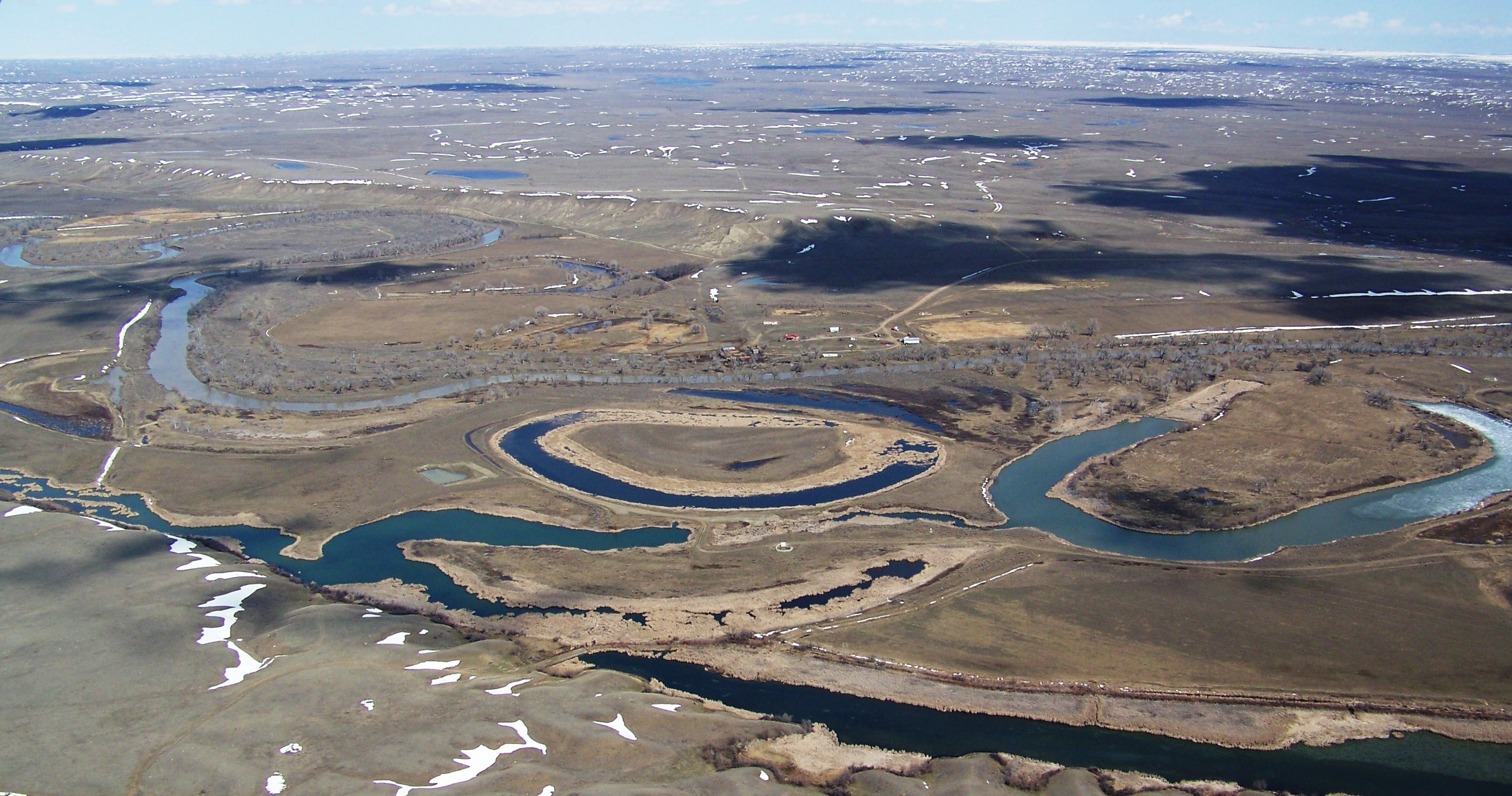 Aerial view of oxbow wetlands and the Milk River on McNeil Slough Waterfowl Production Area Credit: USFWS